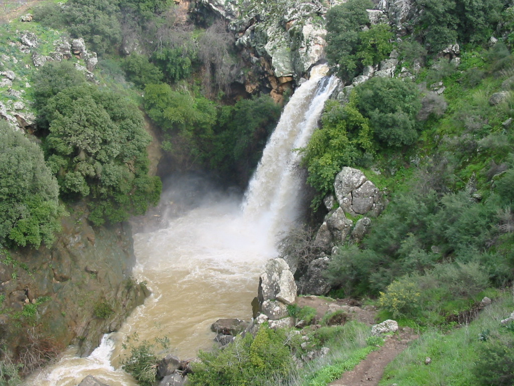 Geography of the Golan Heights